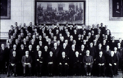 First session of the Dominion-Provincial Conference, Railway Committee Room, Centre Block, Parliament Buildings